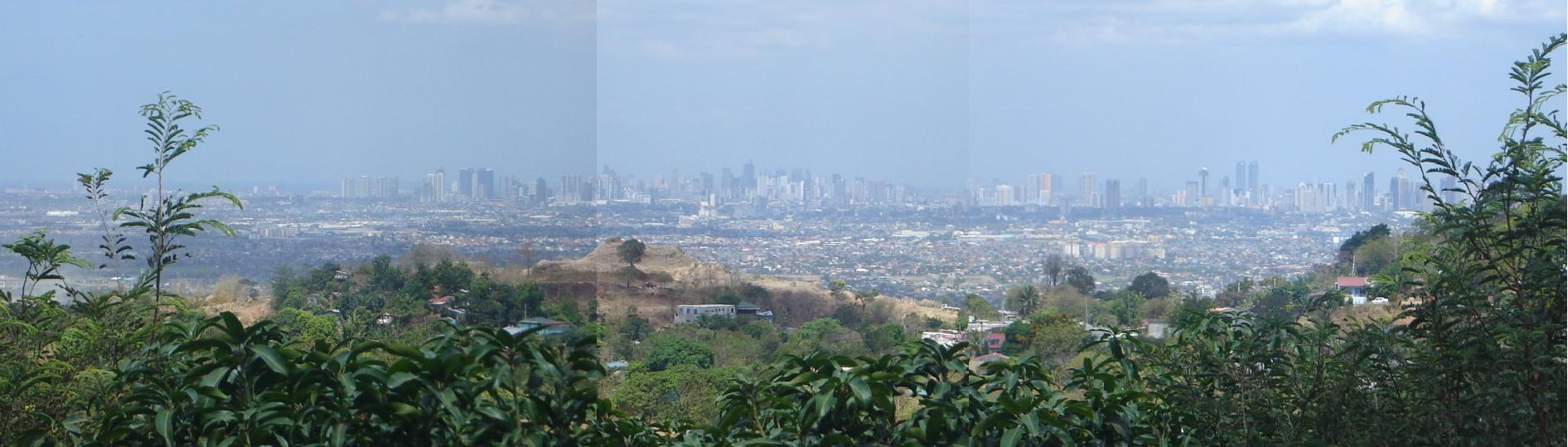 Makati-Ortigas Panoramic Shot from Antipolo City